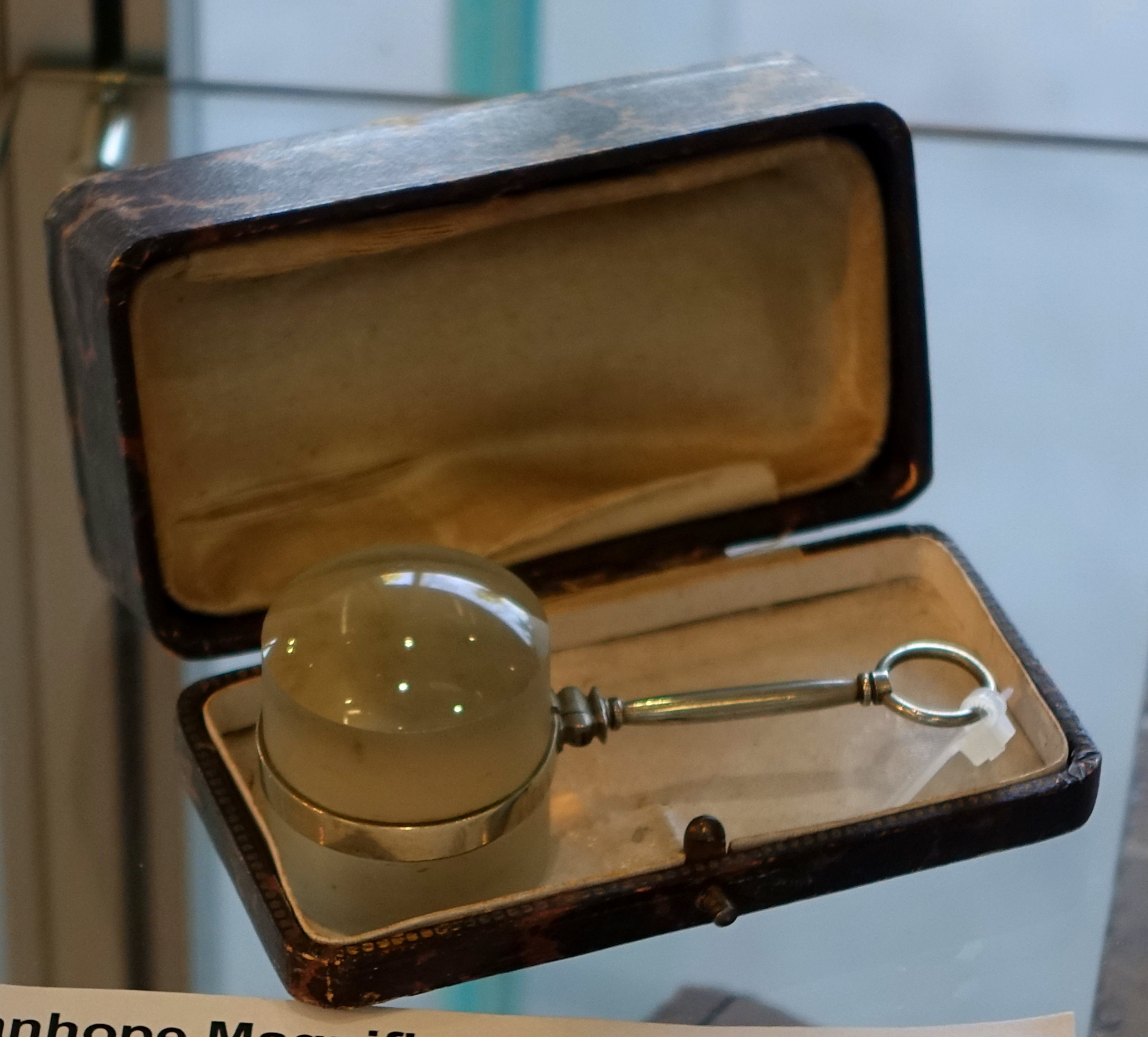 Exhibit in the College of Optical Sciences - University of Arizona - Tucson, Arizona, USA.